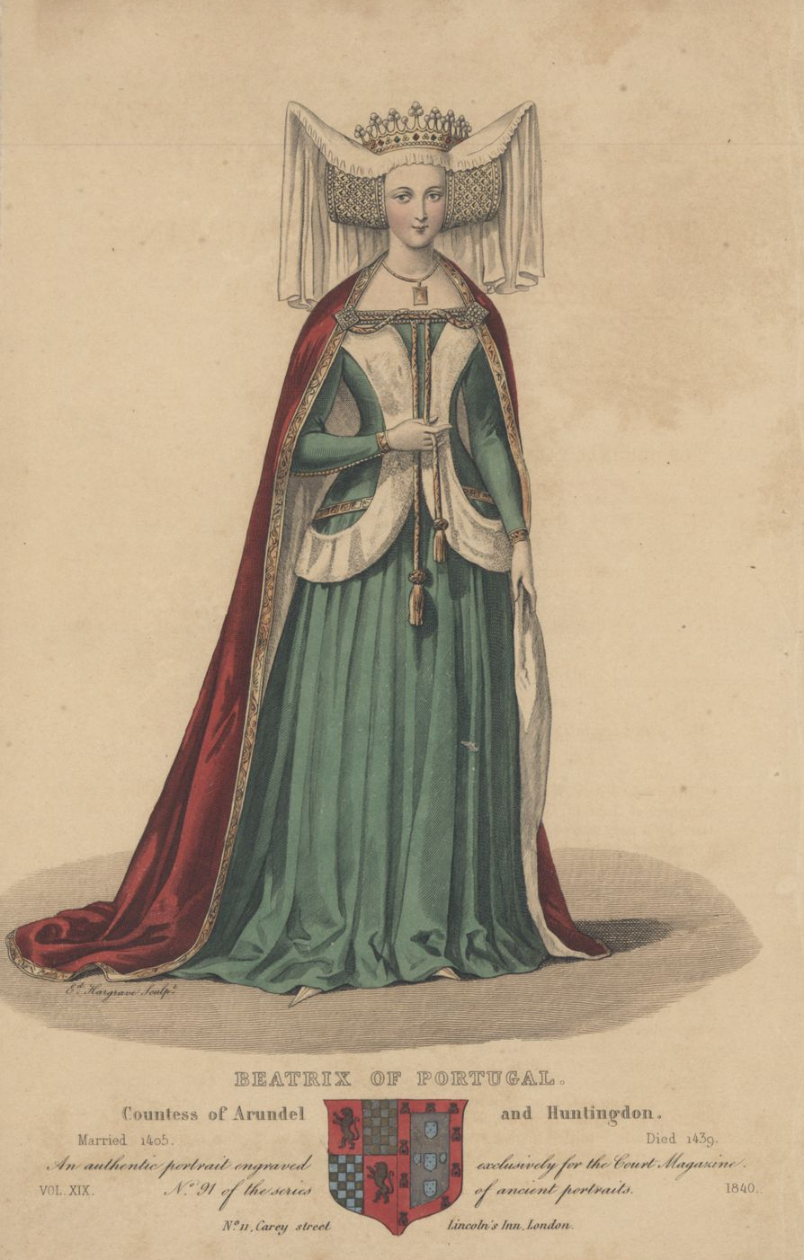 Portrait engraving of Beatrix of Portugal, Countess of Arundel, by Edward Hargrave. It is inscribed: "An authentic portrait engraved exclusively for the Court Magazine, N.º 91 of the series of ancient portraits."